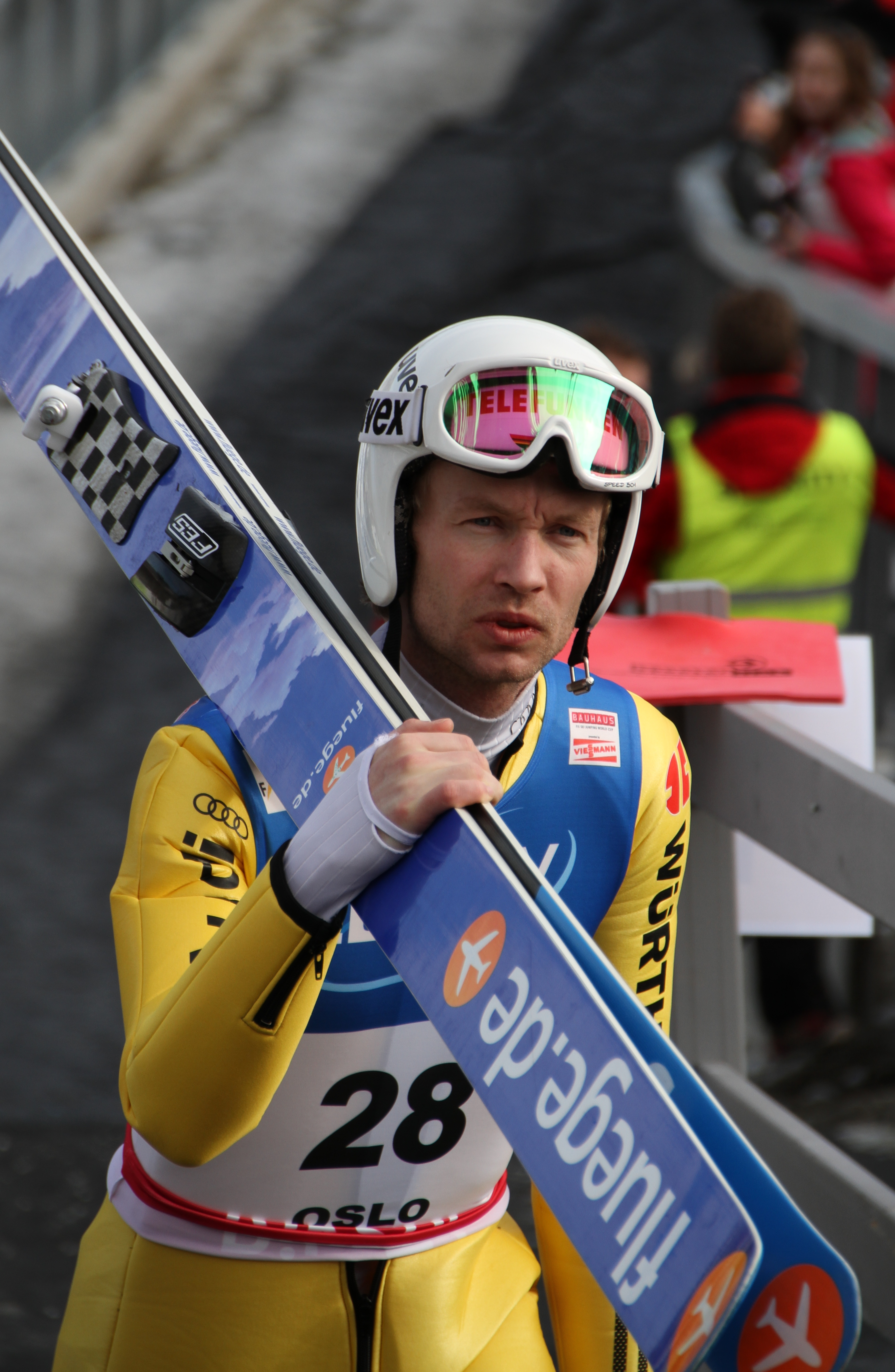 From the first round in the third last tournament of FIS 2011-12 World Cup, ski jumping, Marsch 11. 2012. Holmenkollen, Oslo (Norway).